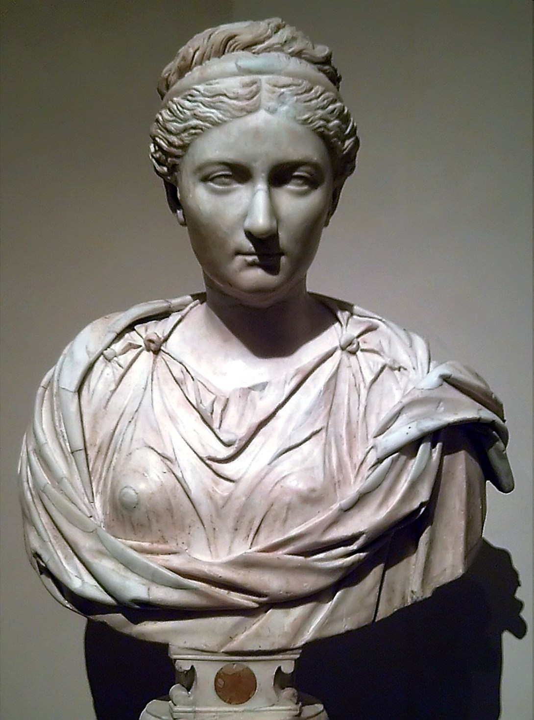 Depicted person: Vibia Sabina.